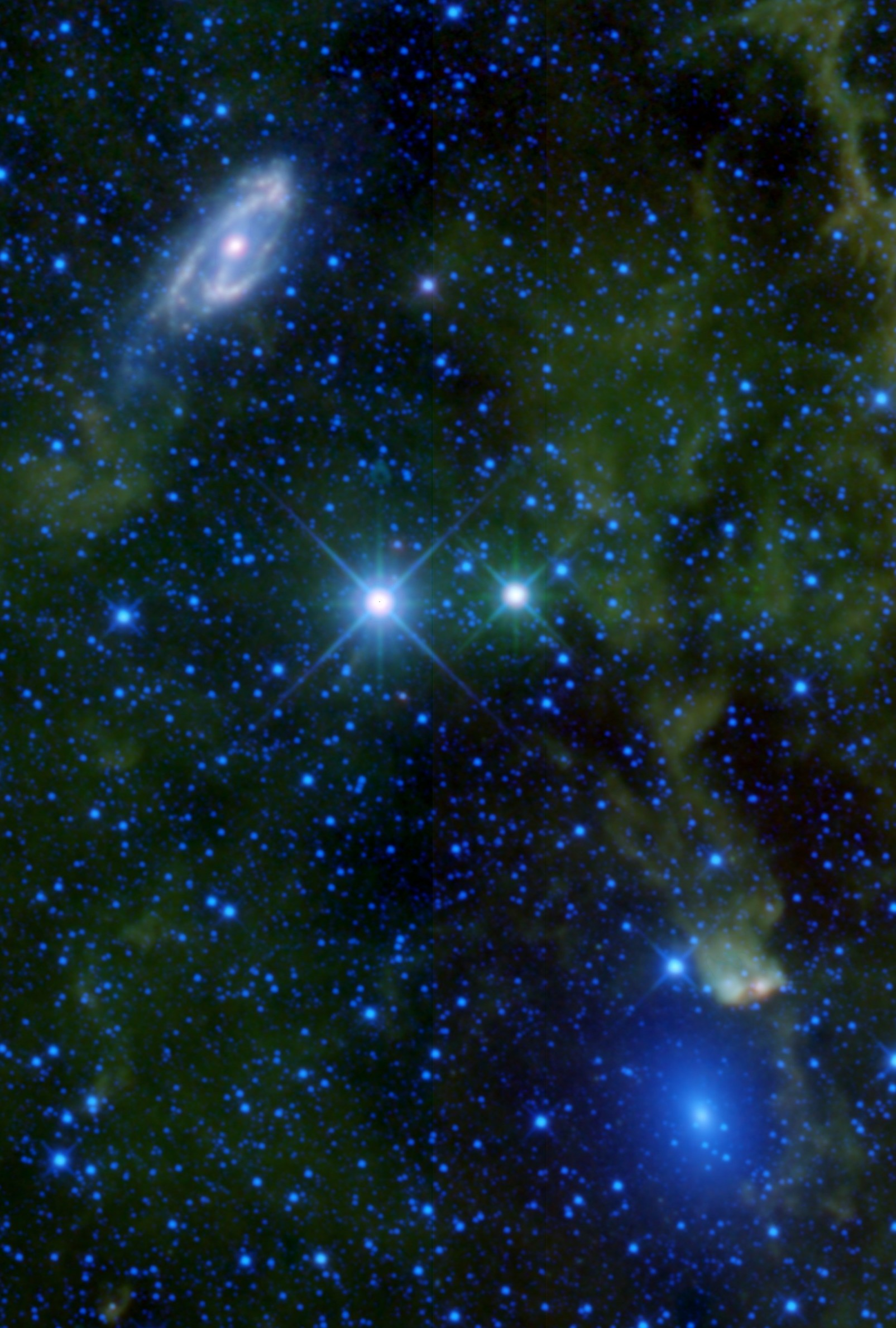 Maffei 1 & 2 galaxies as imaged by WISE